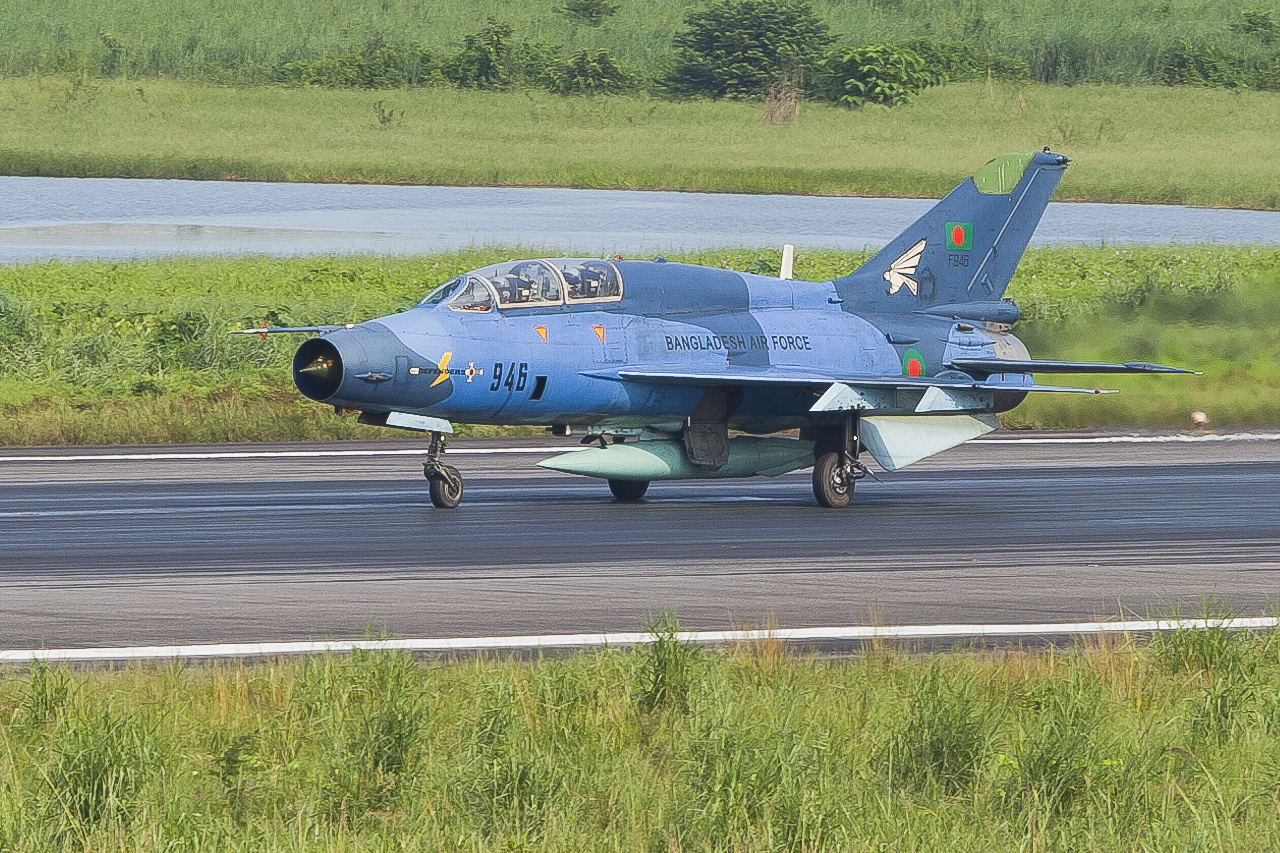 946 Bangladesh Air Force F-7 Air Guard Trainer Class Taxiing